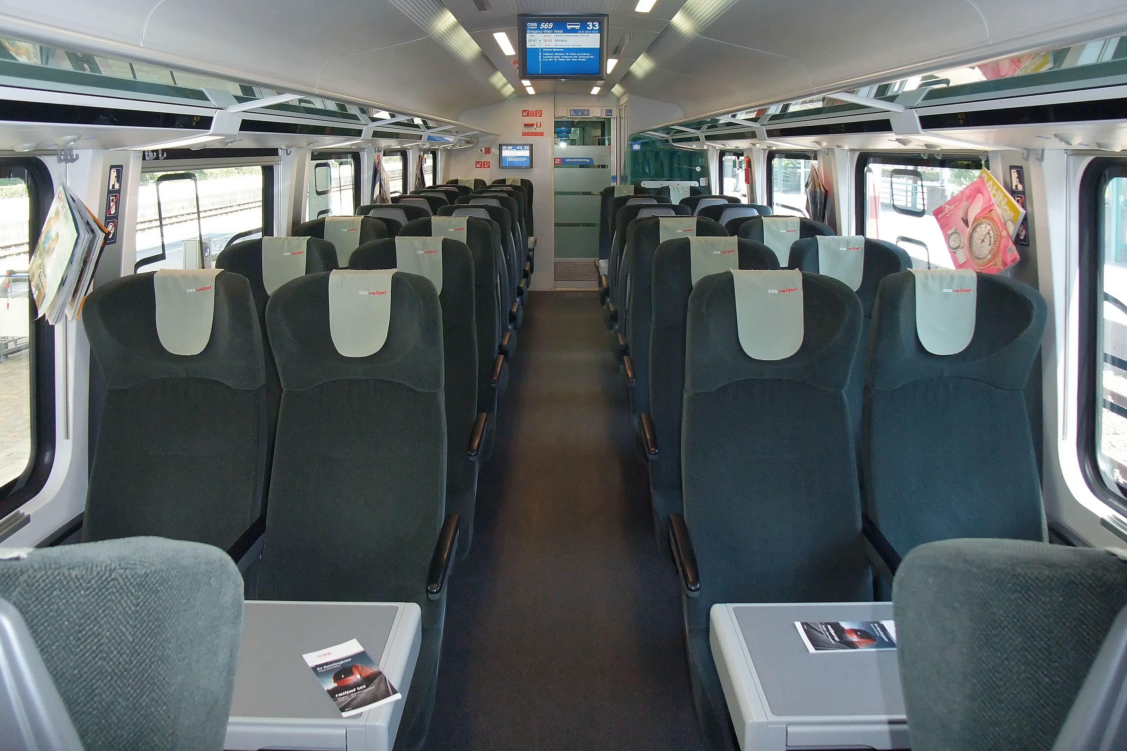 A long-distance train of the Austrian Federal Railways. This high speed train, pulled by a locomotive, runs with a top speed of 230 km/h (143 mph). On 12 July 2008, a four-part railjet ran with 275 km/h (171 mph) between St. Valentine and Amstetten a new speed record of an austrian train in Austria. There are only four partial sections in Austria where speeds of 200 up to 230 km/h are possible in route service. Between Bregenz and Dornbirn, the train has reached 140 km/h. Vorarlberg, Austria, July 22, 2013.